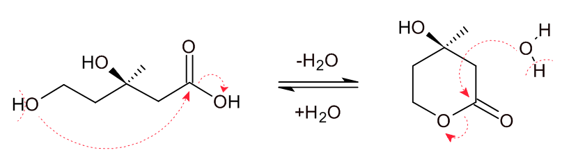 lactonisation